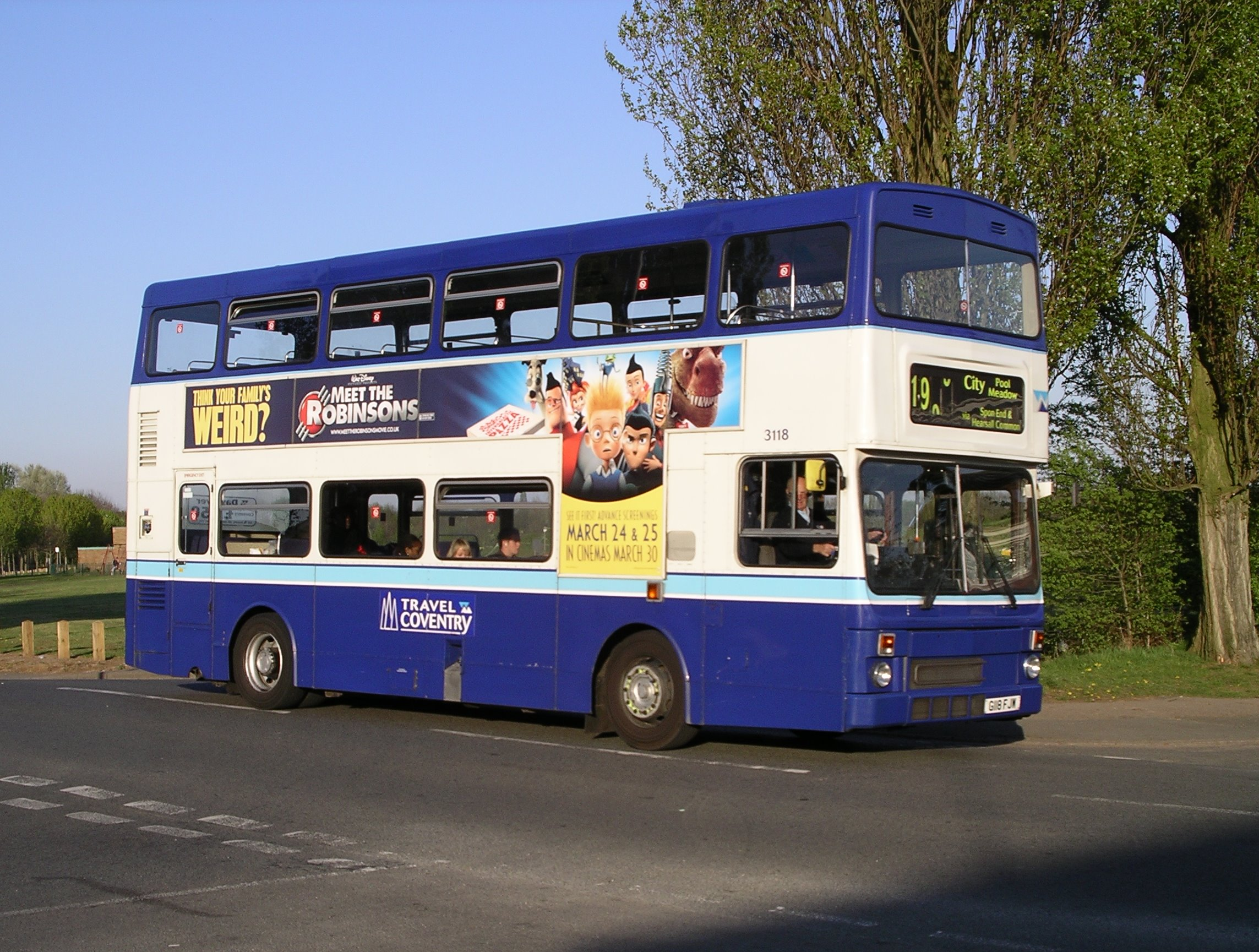 Travel Coventry 3118 (G118 FJW), an MCW Metrobus MkII, in Canley, Coventry, on route 19.